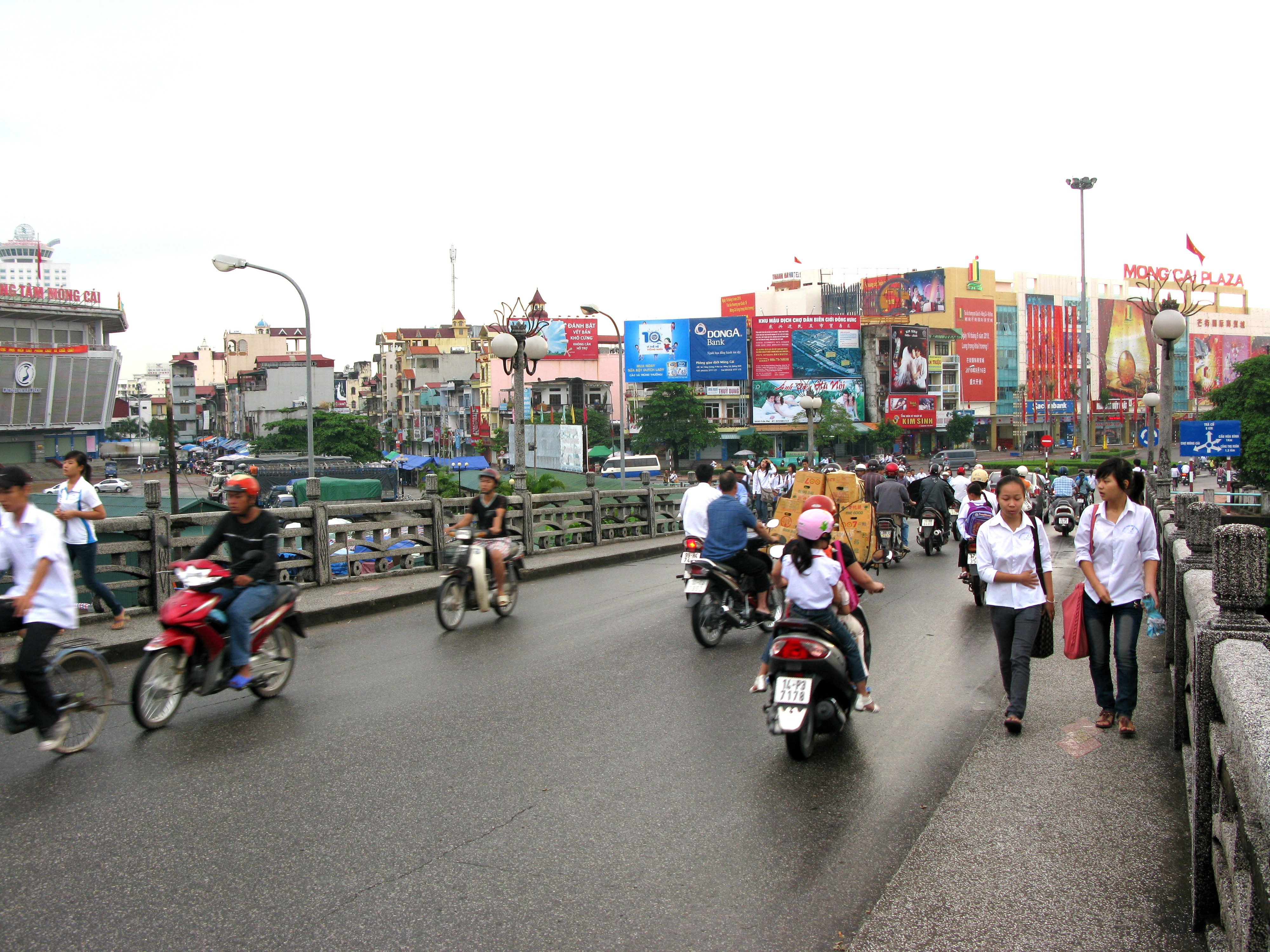 Móng Cái, Quảng Ninh, Việt Nam